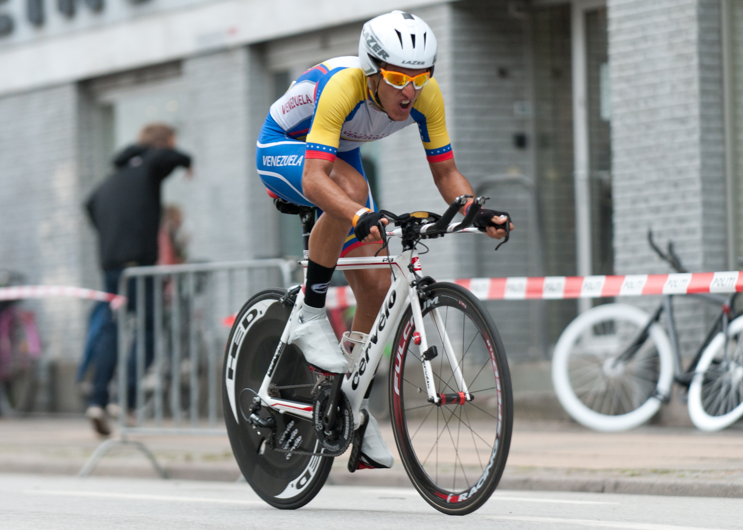 Tomás Aurelio Gil Martínez at the 2011 UCI Road World Championship in Copenhagen.